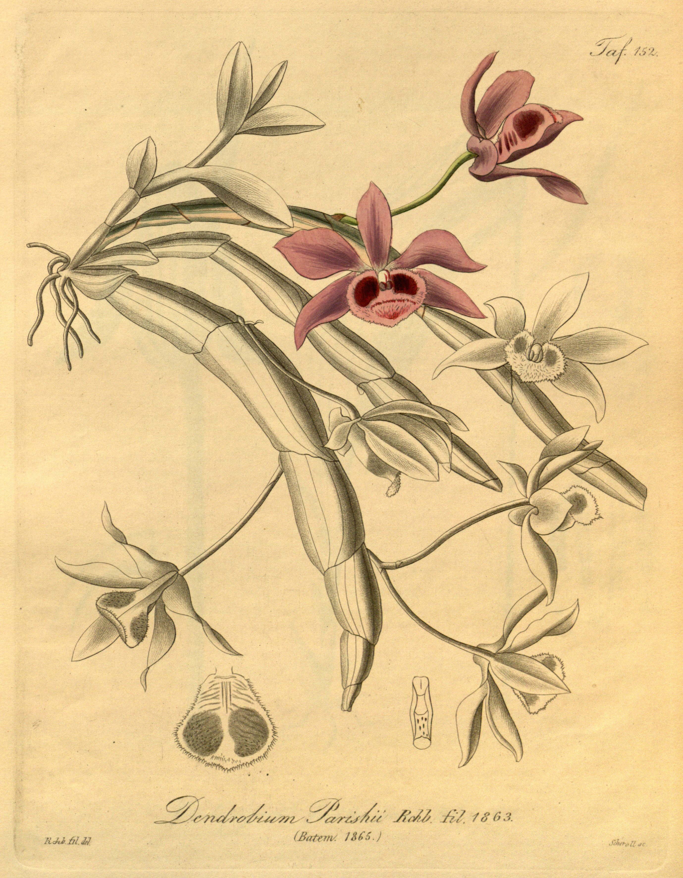 Illustration of Dendrobium parishii